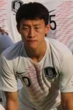 Lebanon v South Korea at the 2022 FIFA World Cup qualifiers.